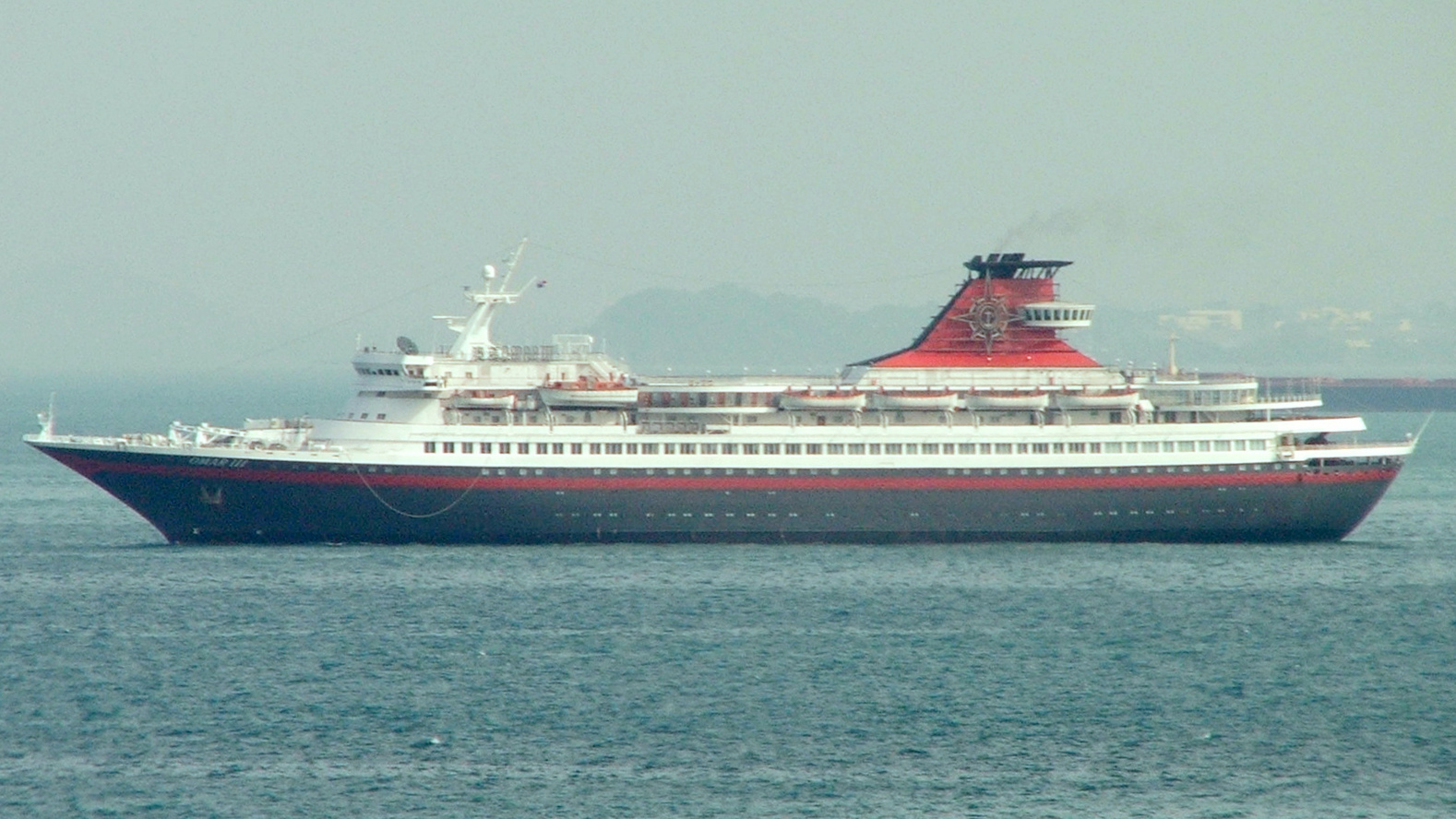 The casino cruise ship Omar III in Singapore